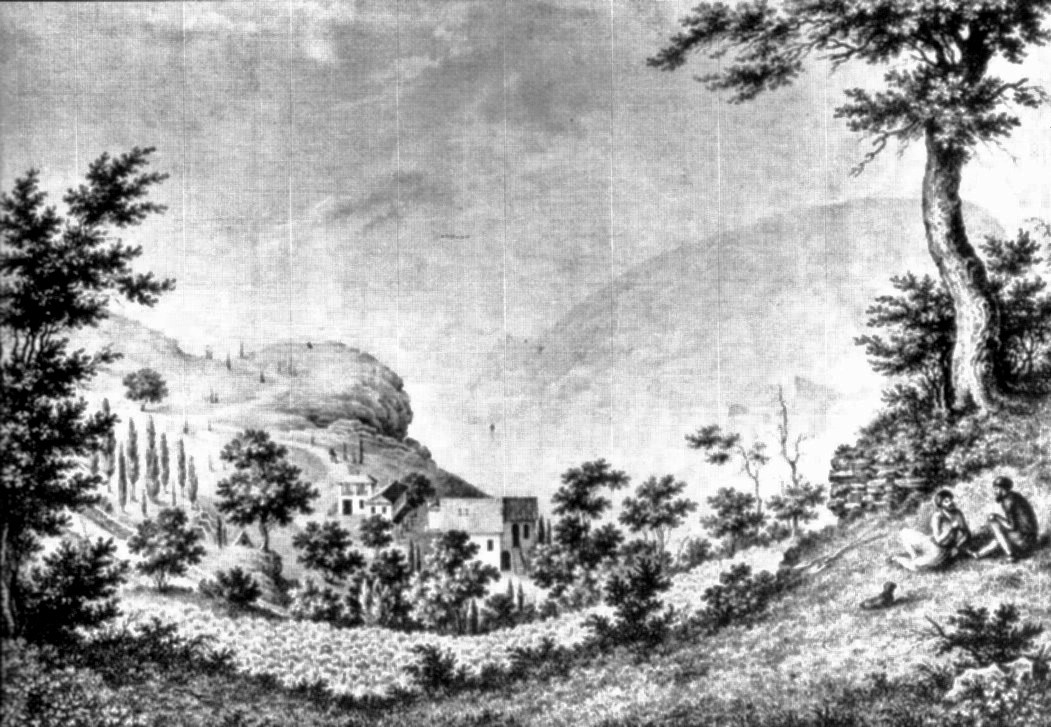 Theodore Gross. "Kuchuk Lambat". Crimea. 1830